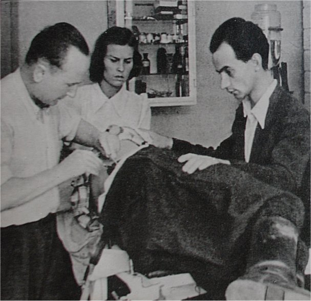 Warsaw Uprising: Surgeon Józef Kubiak during surgery in his practice at ulicy Dobrej 22/24. Assisting him are his sister in law Mrs. Stadnicka and Dr. Biedziński